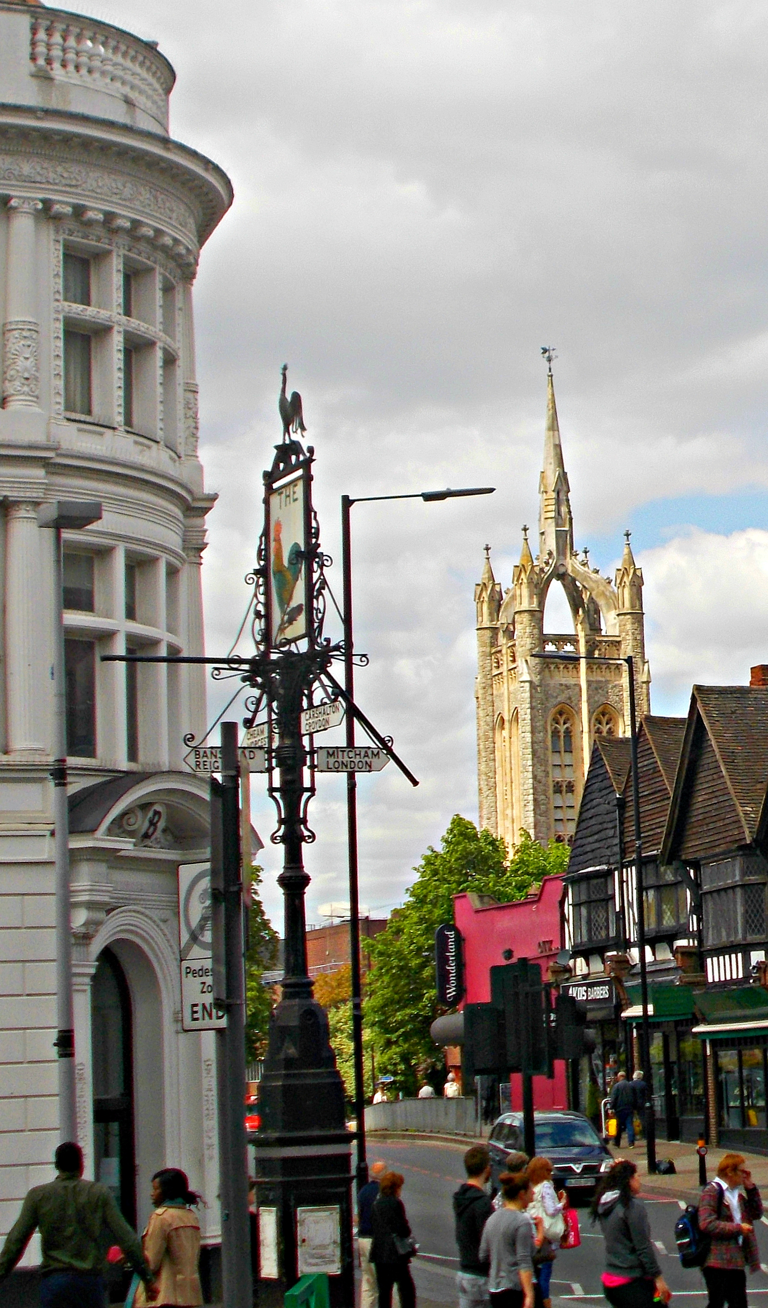 Sutton is 10 miles from central London